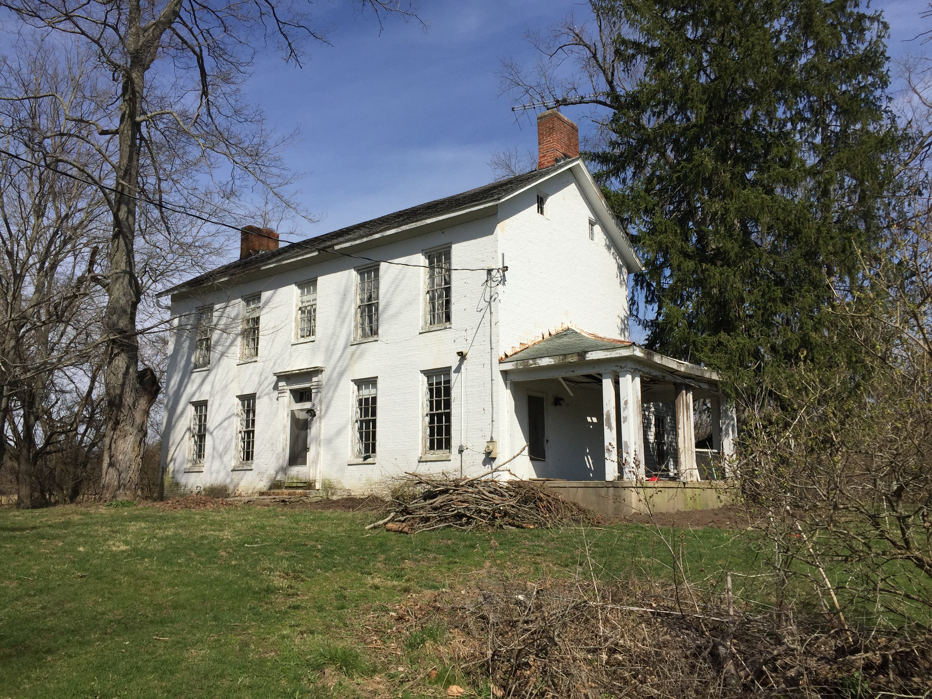 Main farmhouse built by local mill owner Aaron Austin in 1841.